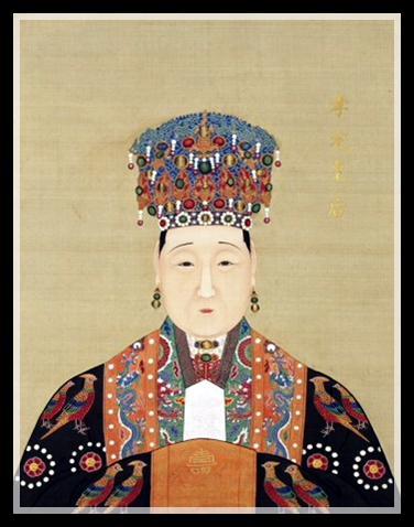 The Official Imperial Portrait of Ming Dynasty's Empress